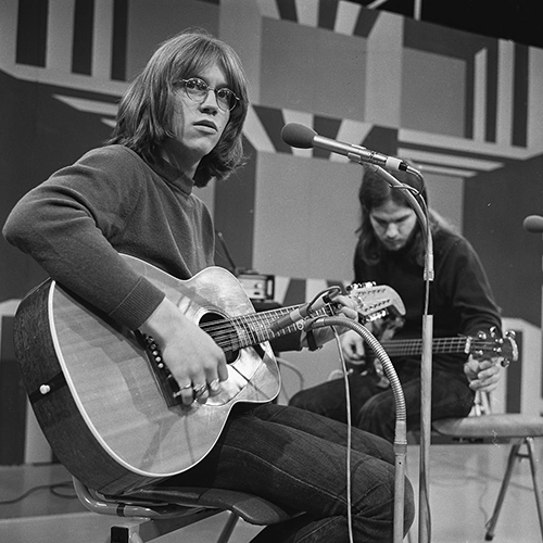 Gerry Beckley (America) in AVRO's TopPop (Dutch television show) in 1972